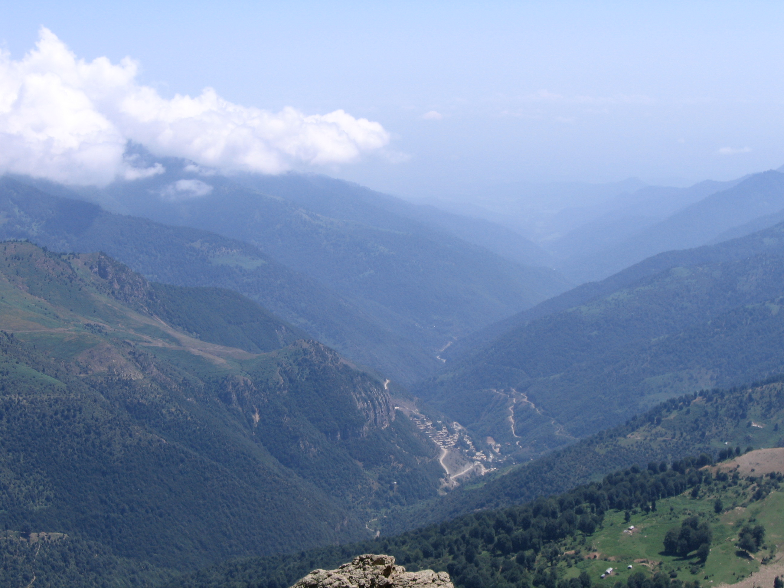 Vista over the way to masouleh